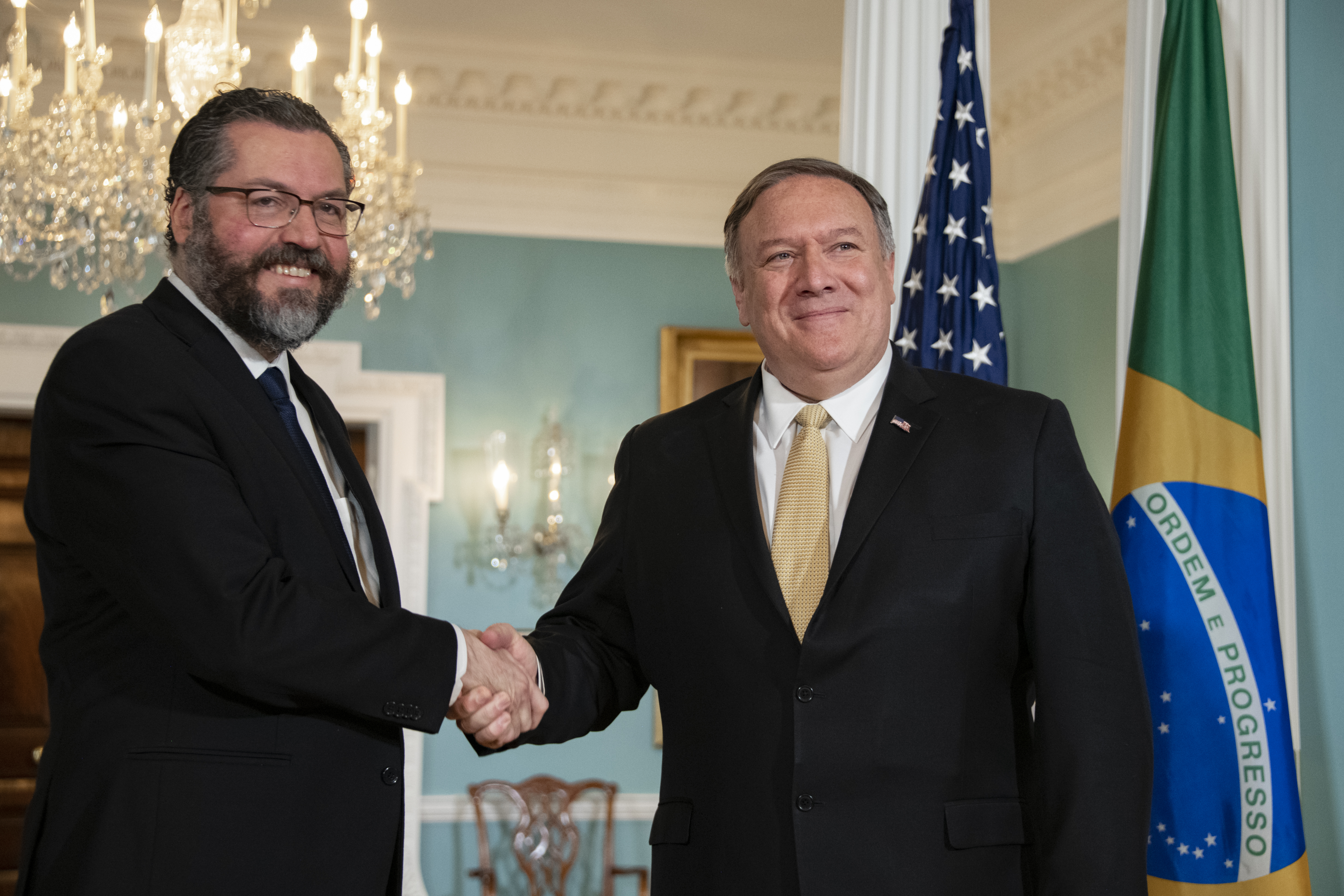 U.S. Secretary of State Michael R. Pompeo meets with Brazilian Foreign Minister Ernesto Araújo at the U.S. Department of State in Washington, D.C., on April 29, 2019. [State Department photo by Ron Przysucha/ Public Domain]